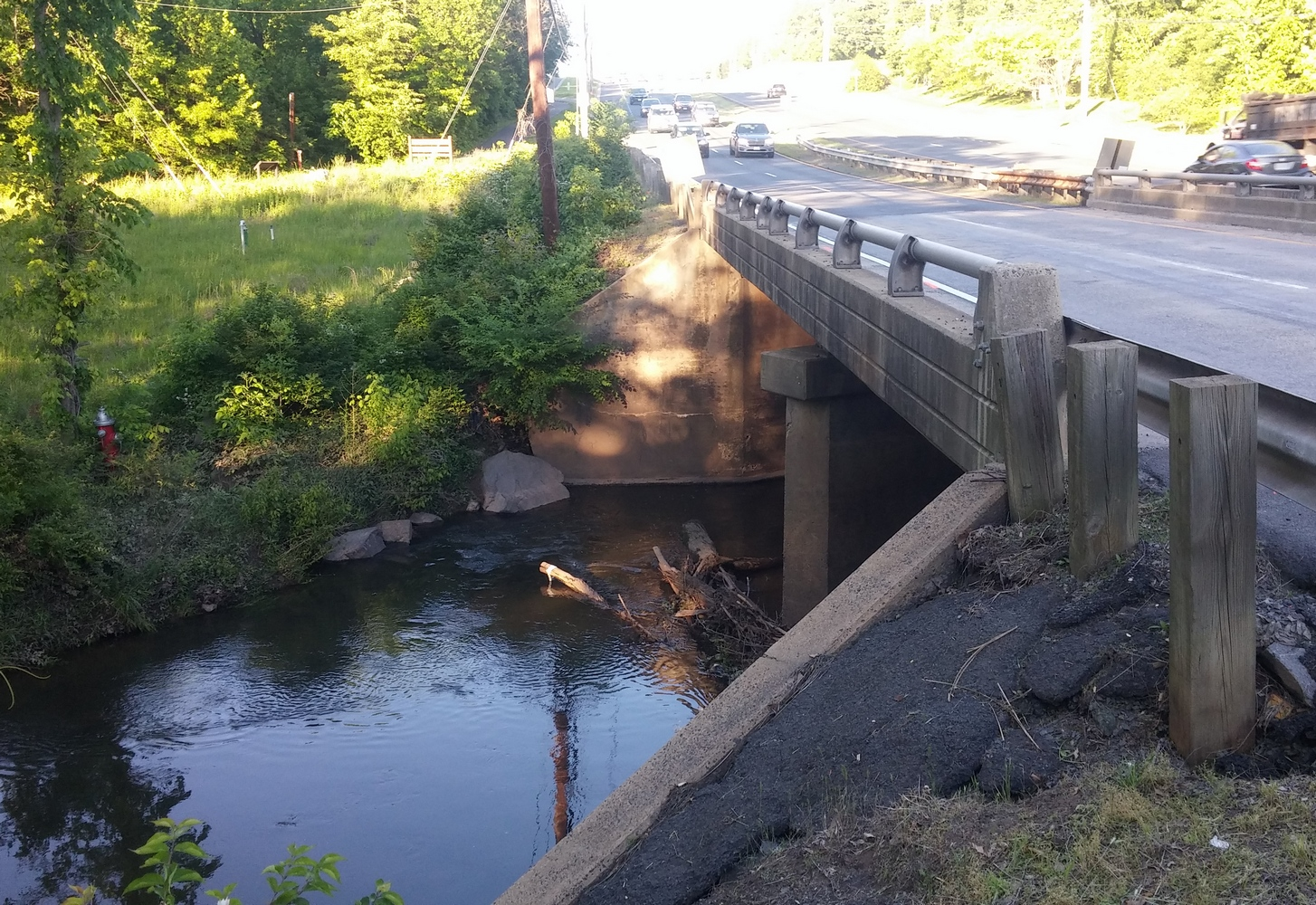 Bridge ower Cub Run (Warrenton Turnpike)